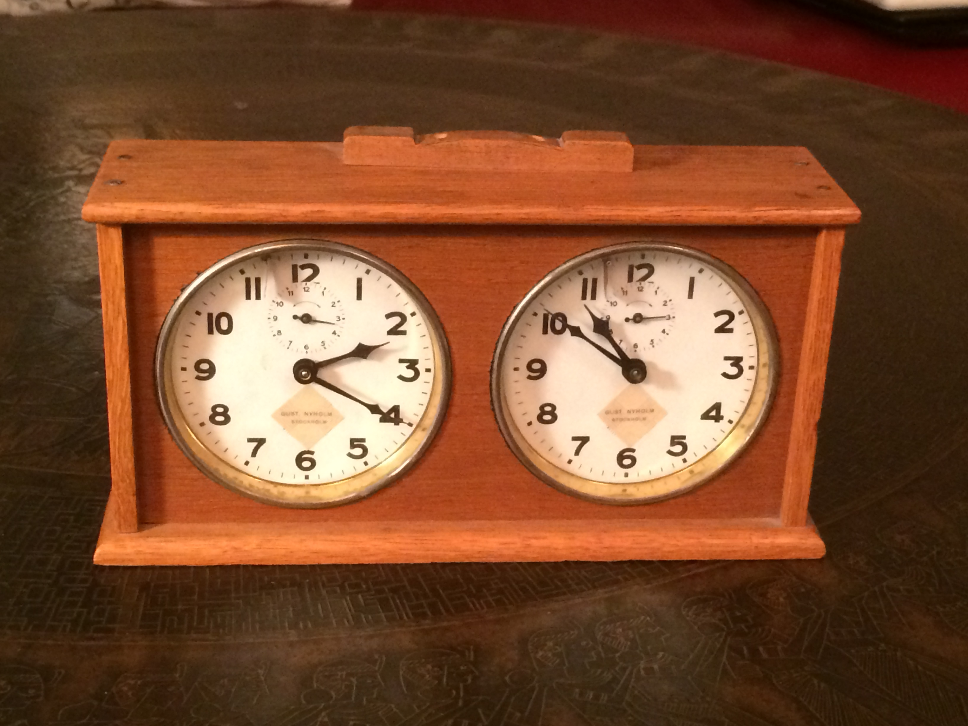 Chess clock / Game clock. Wooden case. Labeled "Gust. Nyholm". Mr Gust. Nyholm was a strong Swedish chess player in the first half of the 20th century, and secretary of Svenska Schackförbundet, Sweden's national chess federation.